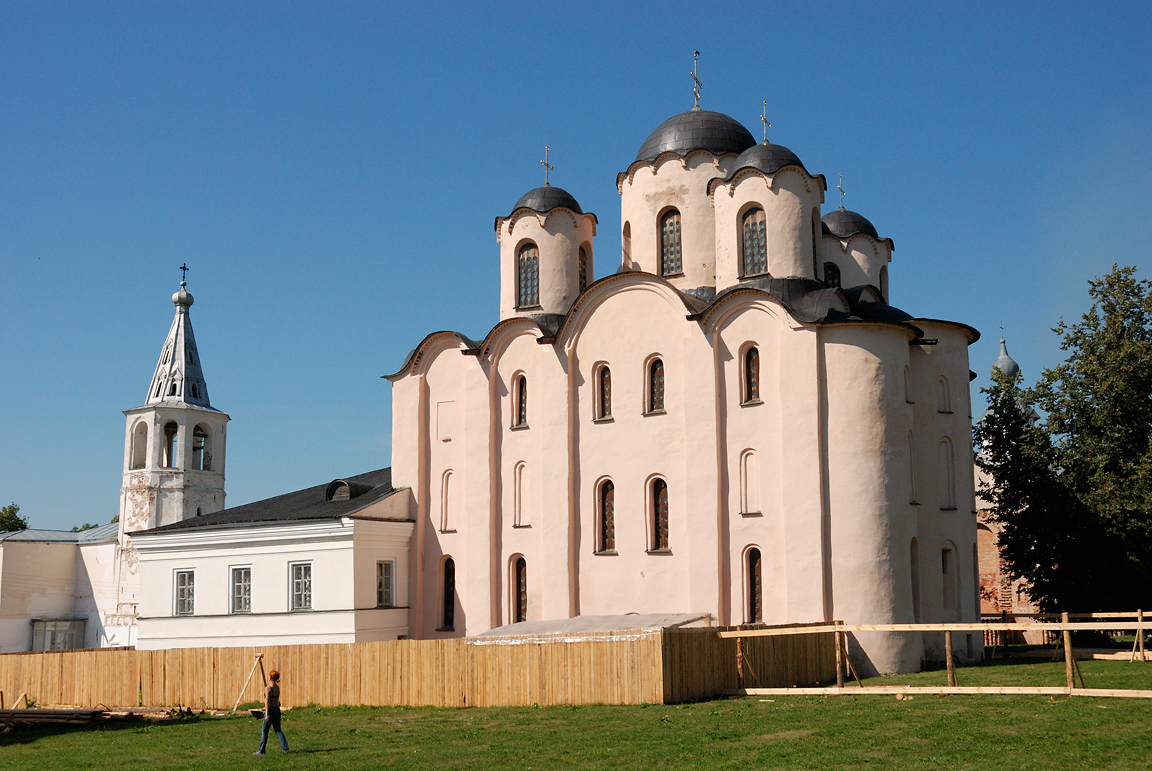 Veliky Novgorod, St Nicholas Church on Yaroslav's Court.